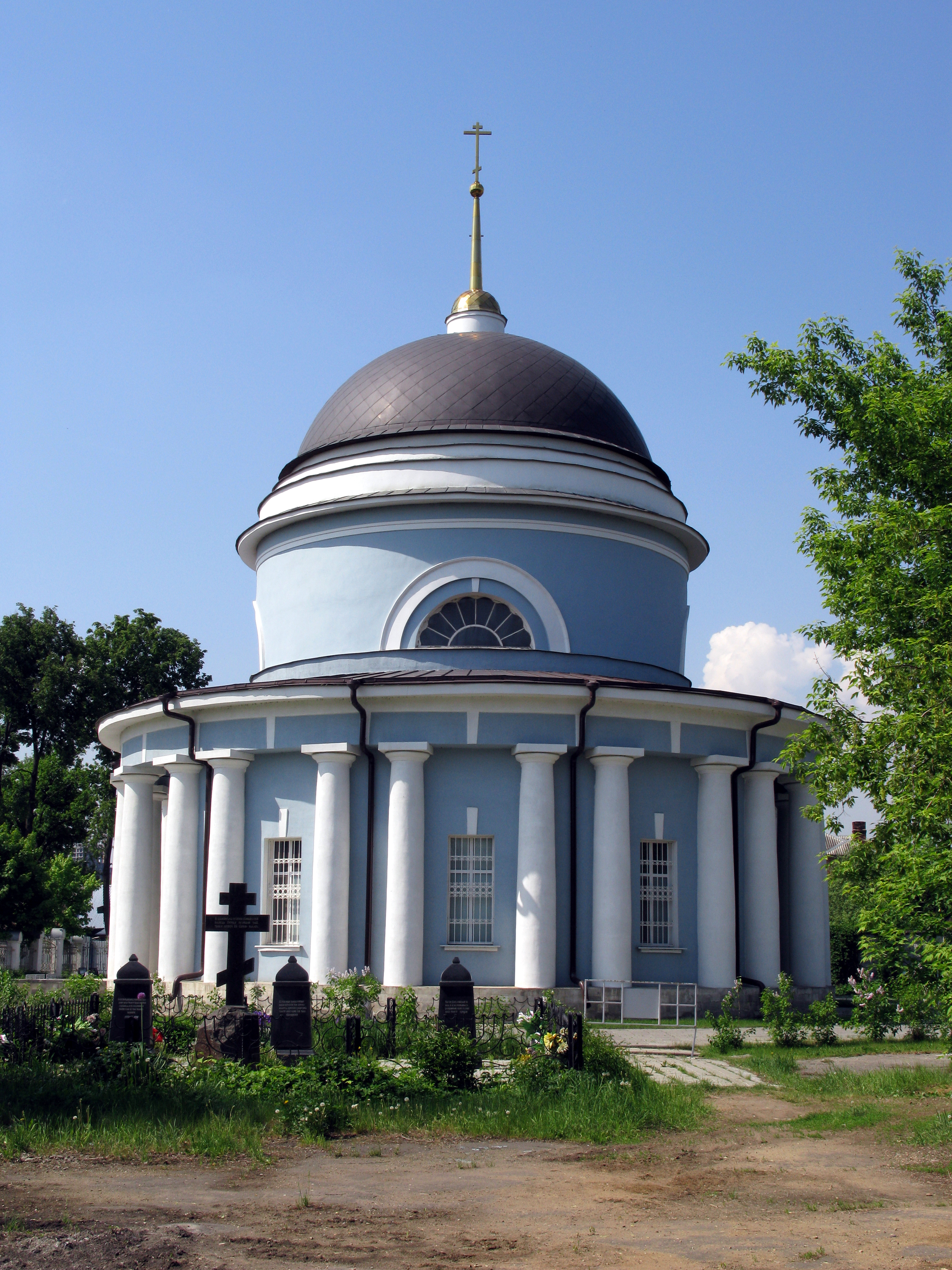 Church of the Protection of the Theotokos in Pehra-Pokrovskoye (Balashikhinsky District of Moscow Oblast)